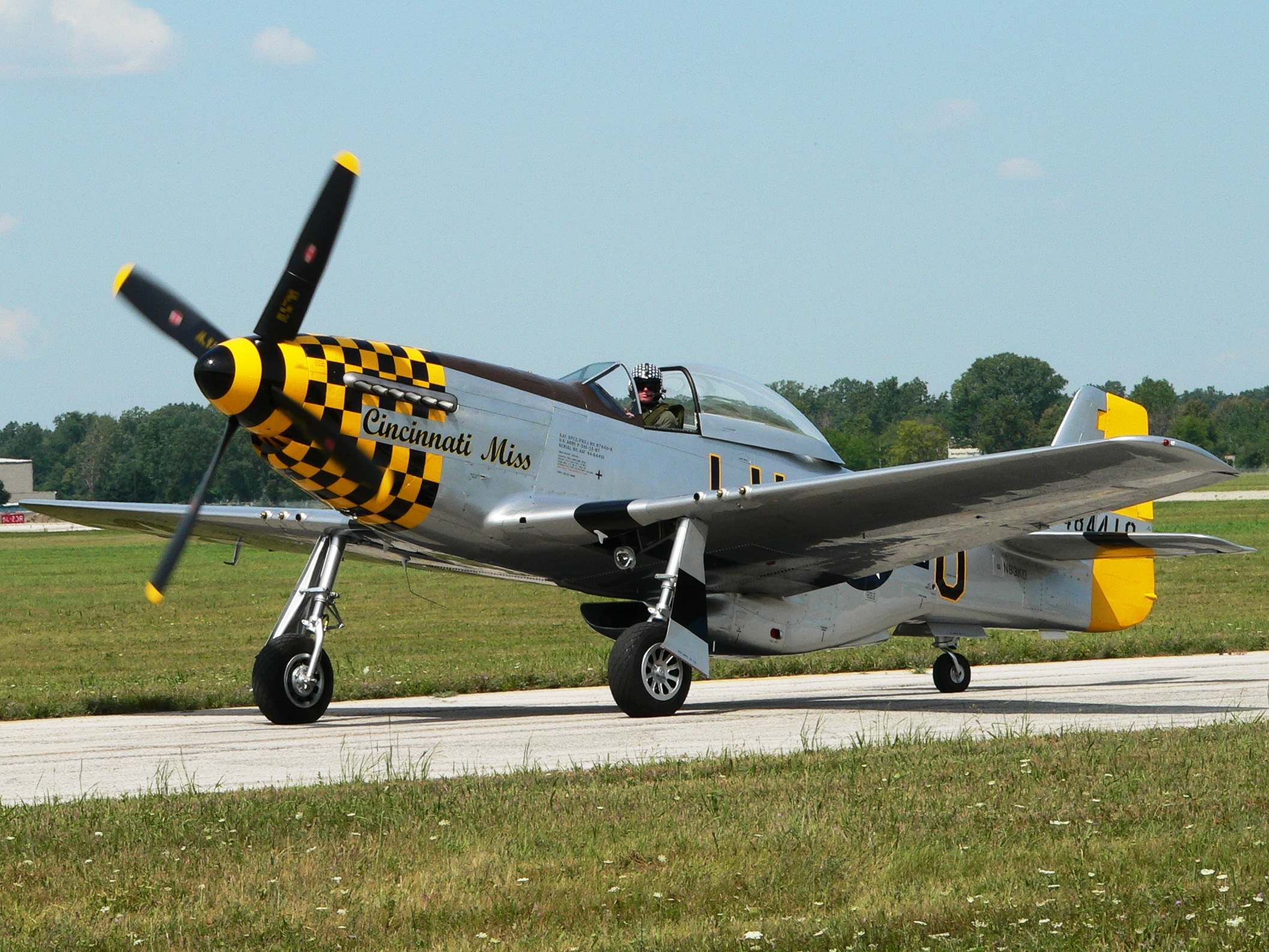 P-51 "Cincinnati Miss" taxis after touchdown at the Willow Run Airport, Ypsilanti, MI, August 2005.